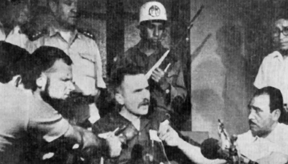 Regis Debray en una foto publicada para una nota denunciando su condena a 30 años en Bolivia.